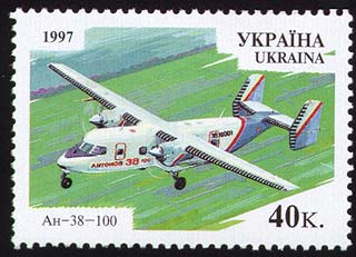 Stamp of Ukraine